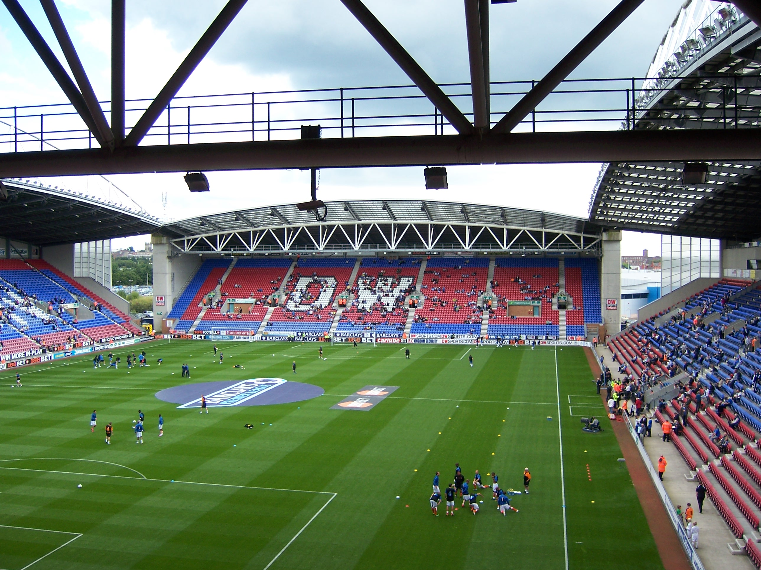 Warm up at the DW Stadium, Wigan, near to Wigan, Great Britain. Opening day of the 2010/11 Premier League and Wigan are at home to Blackpool. DW being the initials of Wigan's owner - Dave Whelan. Following a successful football career with Blackburn and Crewe, Dave Whelan opened a chain of Grocery Discount Stores in the North-West and then made a lot money by selling them to rivals Morrison's. The stand at the far end is the South Stand.